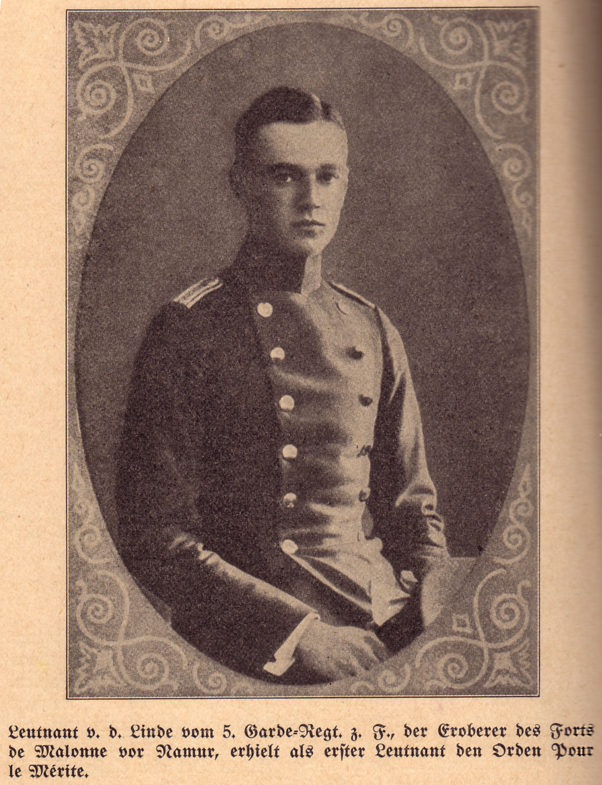 German Lieutenant Otto von der Linde (WW1)